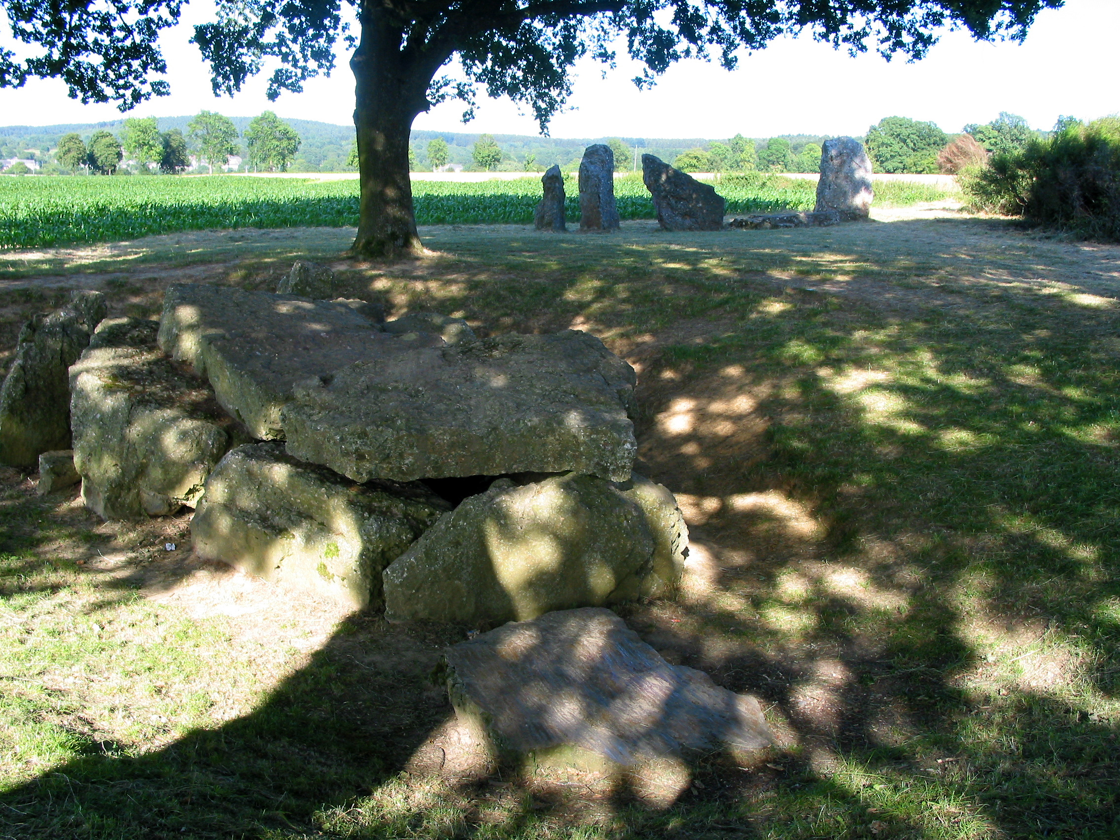 Wéris, the dolmen of Oppagne (dolmen sud or Wéris II).